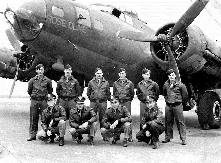 457th Bombardment Group - B-17 Flying Fortress - Crew.Rose Olive